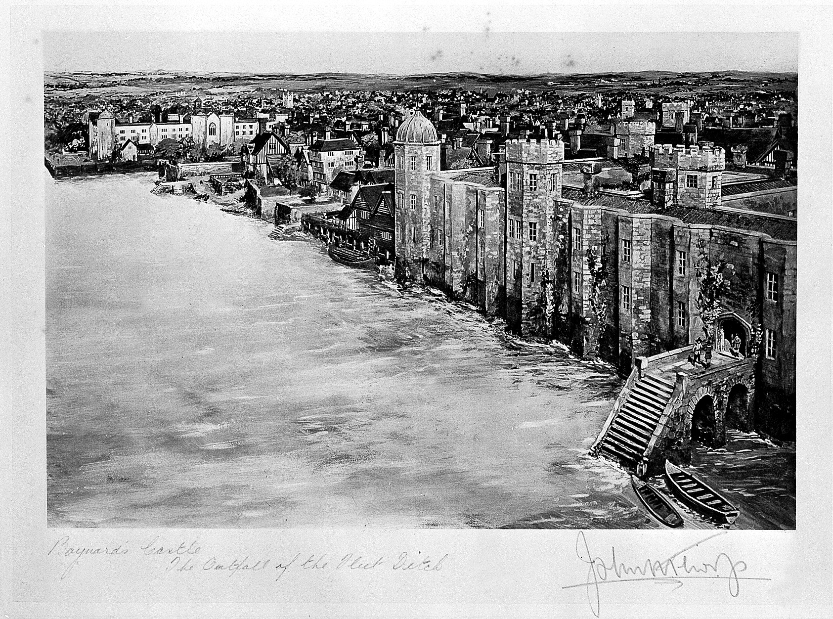 Baynards Castle the outfall of the Fleet Ditch. Wellcome Images Keywords: Public Health